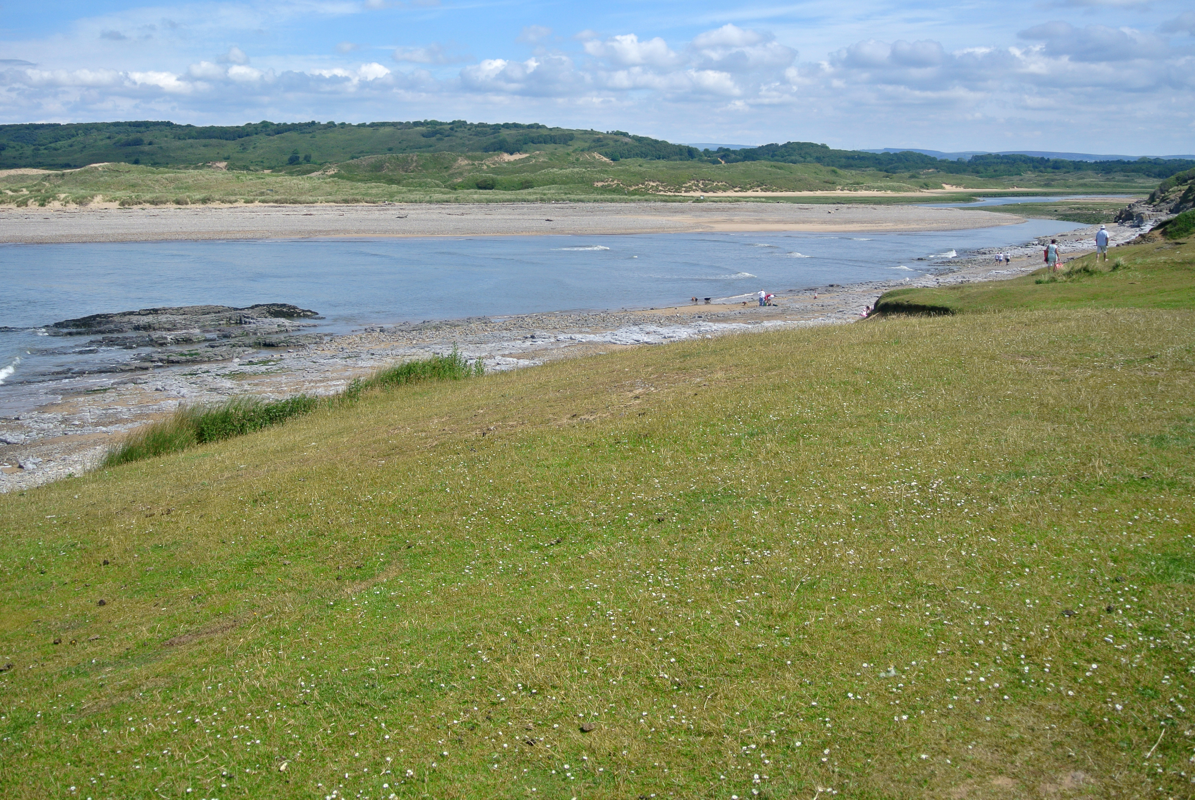 Mouth of the River Ogmore, south Wales.